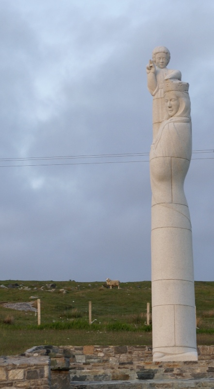 Lady of the Isles, South Uist, Outer Hebrides, Scotland